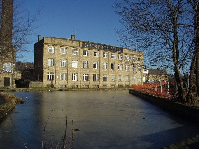 Dock at Junction Bridge, Shipley. This short section seems to be all that is left of the Bradford Branch of the Leeds and Liverpool Canal. Dockfield Mills in the background.